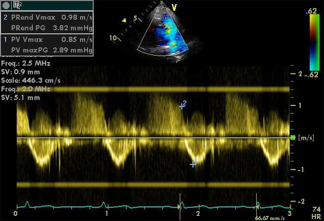 Graphic display of flow measurement in normal pulmonic valve made during echocardiographic examination. PR is a measurement of pulmonic regurgitation, PV Max is a measurement of maximal forward flow.